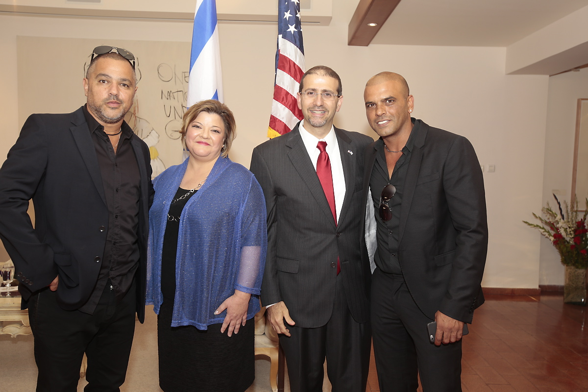 July 4th 2015